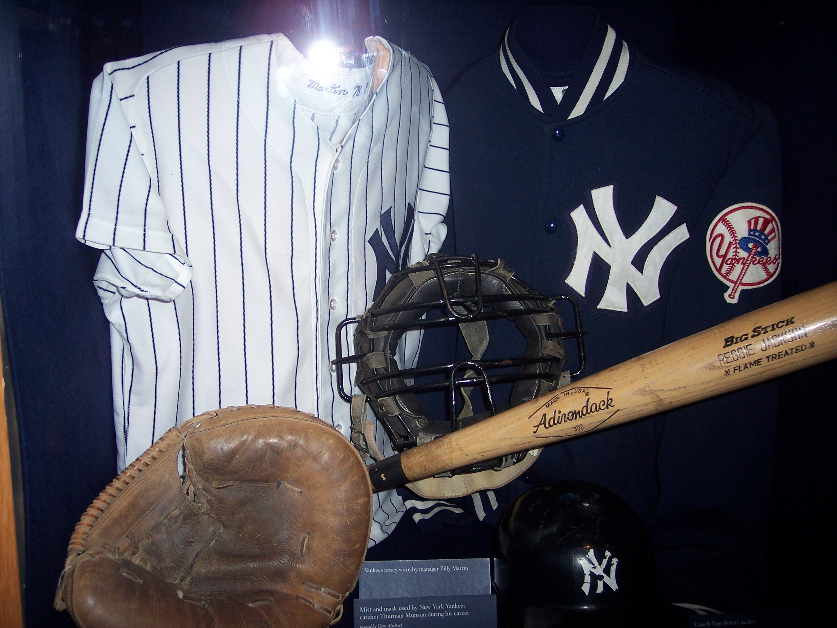 I, the Silent Wind of Doom, took this picture on a trip to the National Baseball Hall of Fame. 08:11, 27 December 2007 . . Silent Wind of Doom . . 2,856×2,142 (1.06 MB)